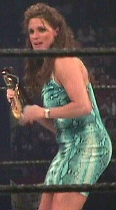 Stephanie McMahon with the WWE Women's Championship during the 2000 King of the ring event.